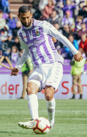 Real Valladolid - Valencia C. F., 38th fixture of the 2018-19 La Liga, May 18, 2019.